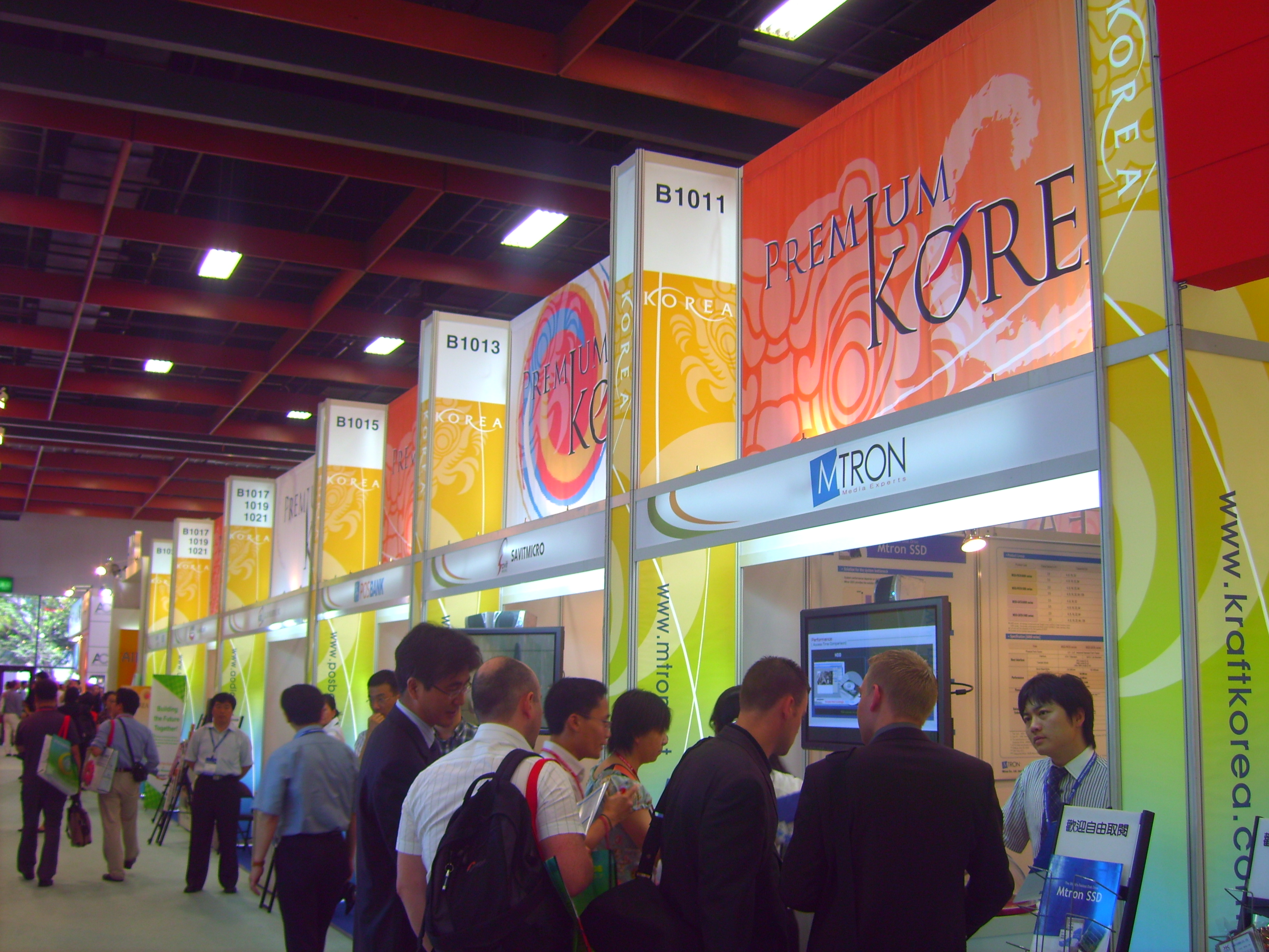 Computex Taipei 2007: International Pavilion of "Premium Korea".